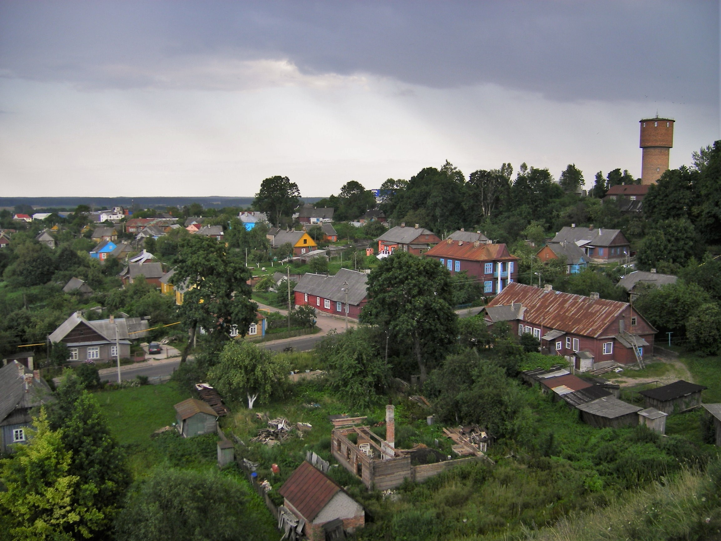 Navahrudak, view from the castle